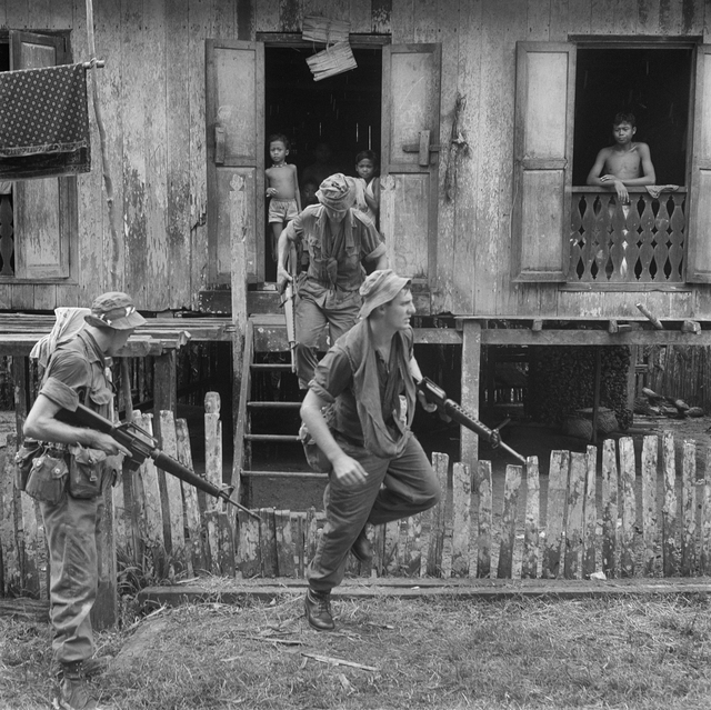 Soldiers from the 4th Battalion, The Royal Australian Regiment, moving from hut to hut in a village as they carry out a routine patrol along the Malaysian-Indonesian border. Left to right: Corporal John Maloney, from Coburg, Victoria; Private (Pte) Bill McBride, of Albany, WA, on the steps of the hut; and Pte Arthur Francis, of Cessnock, NSW. A number of children are watching them from inside the hut.